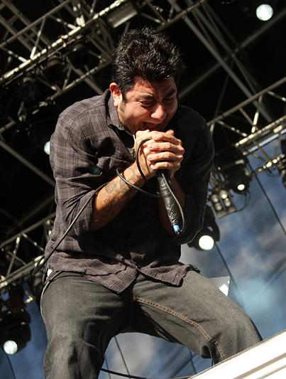 Deftones singer Chino Moreno performing at Maquinária Festival, São Paulo on November 6, 2009.